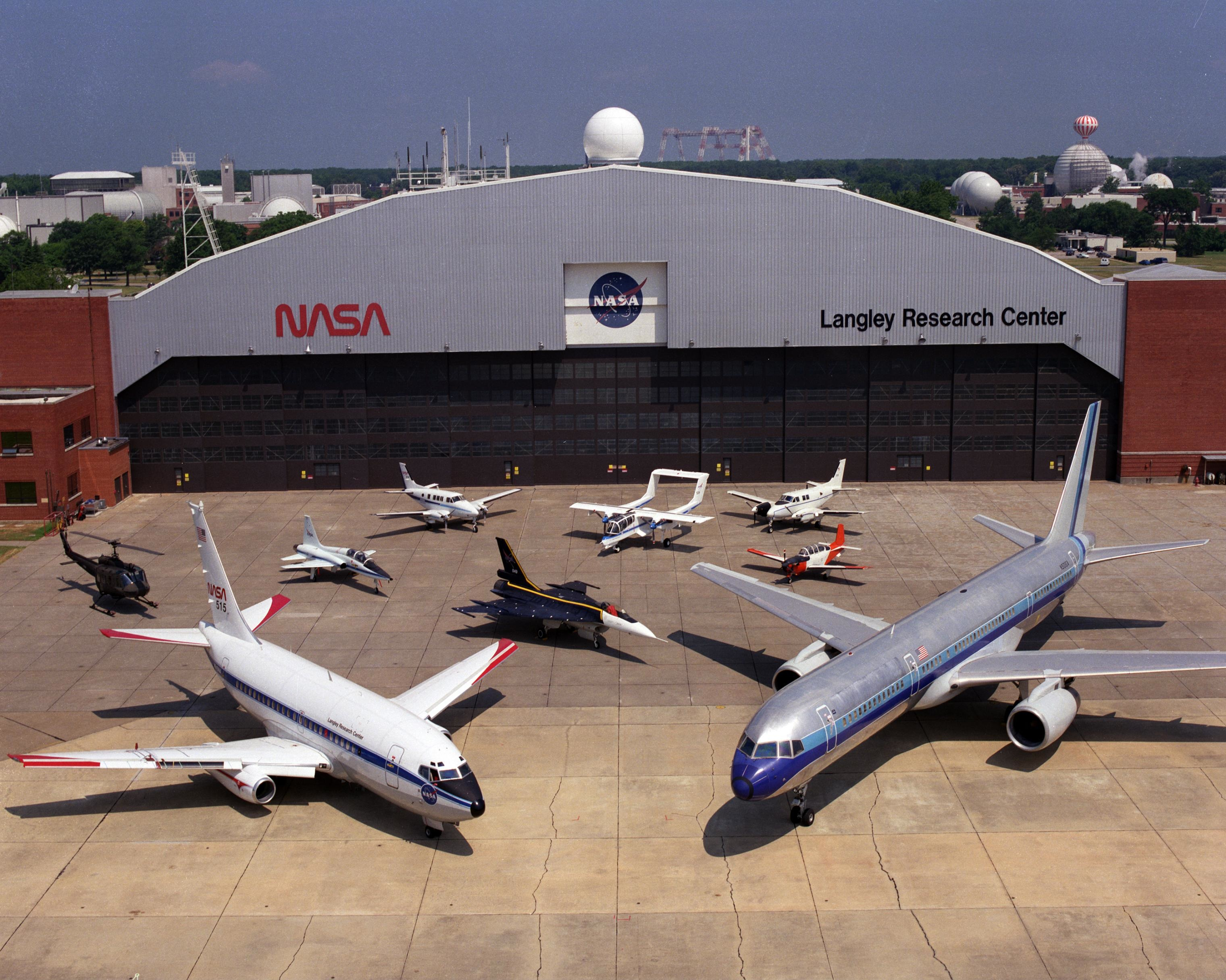 NASA Langley Research Center (NASA-LaRC) Aircraft in Front of Hangar, Building 1244 - Aircraft in Photograph Boeing 737-100, UH-1H, T-38A, BE-80 Queenaire, OV-10A, U-21A, T-34C, Boeing 757-200, F-16XL - ID: EL-1996-00055 - L94-4815